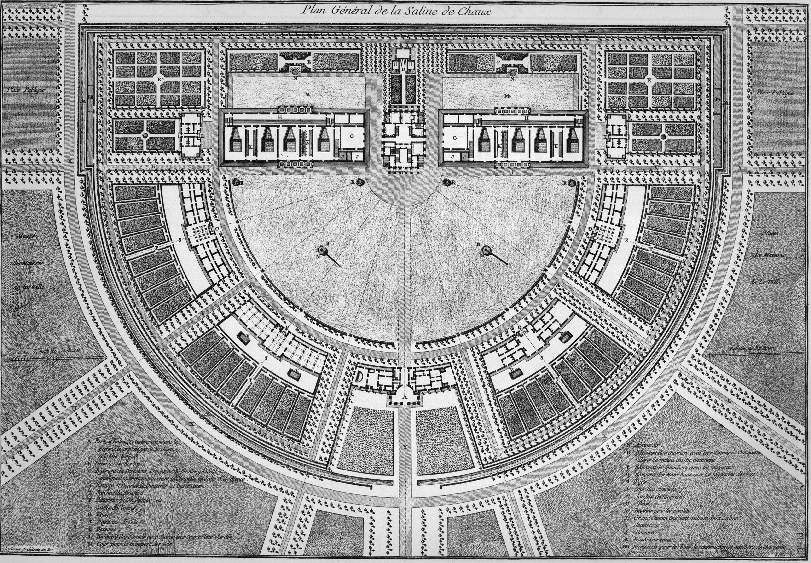 General plan of the Royal Saltworks at Arc-et-Senans